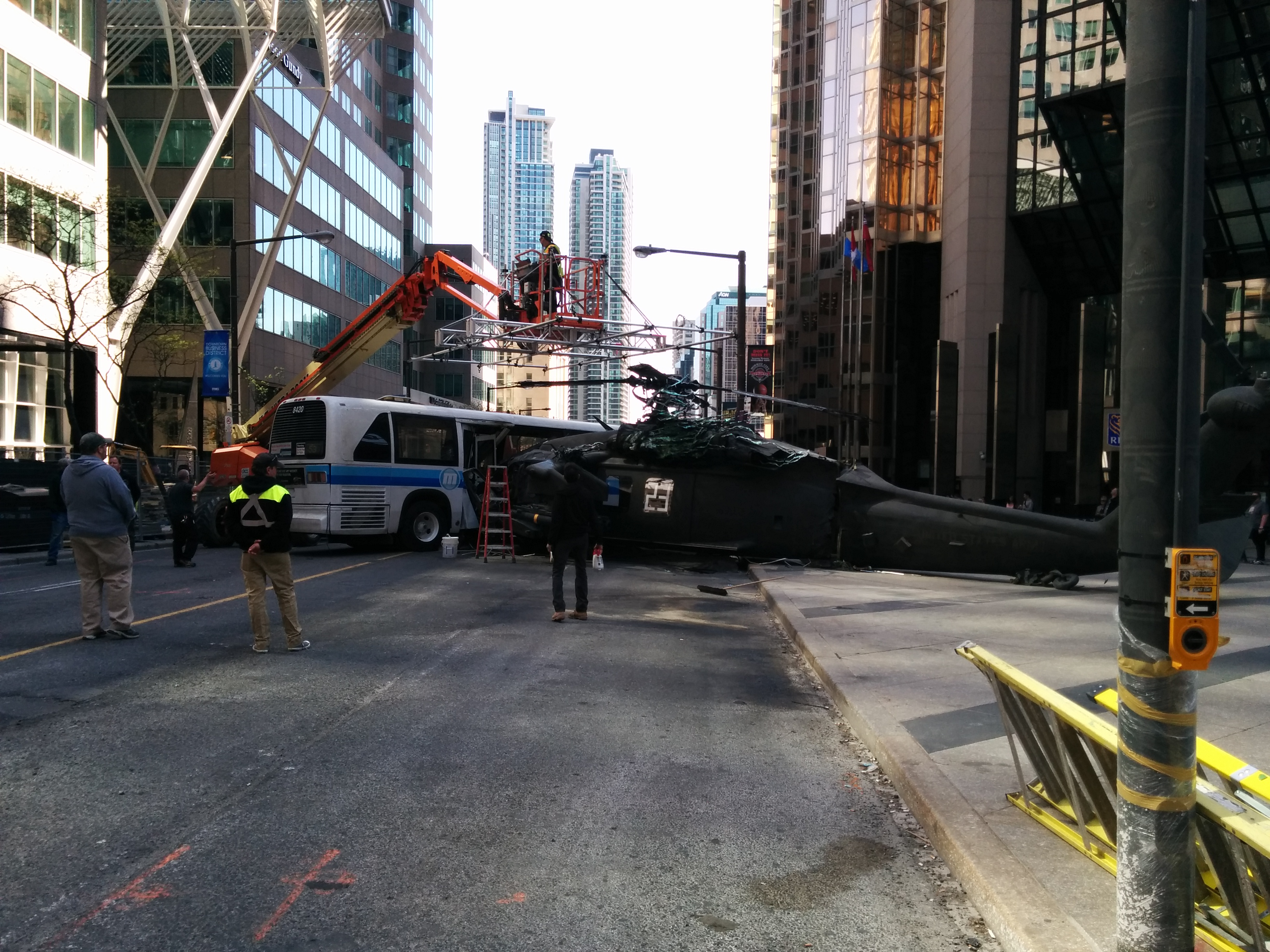 Suicide Squad filiming in Toronto.